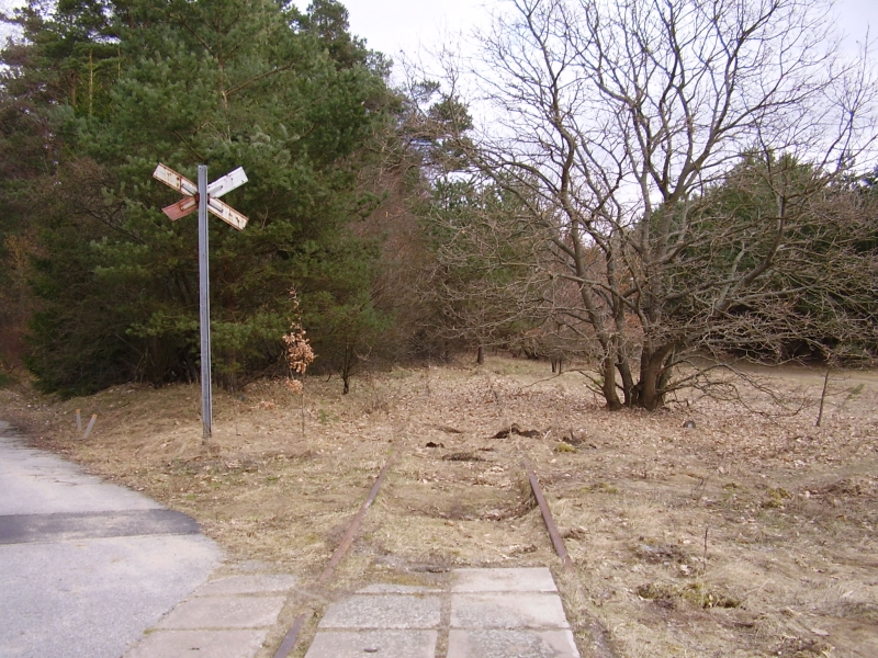 Railway crossing in Eastern Veberöd, Ängavägen crossing the former line from Malmö to Sjöbo and Simrishamn.